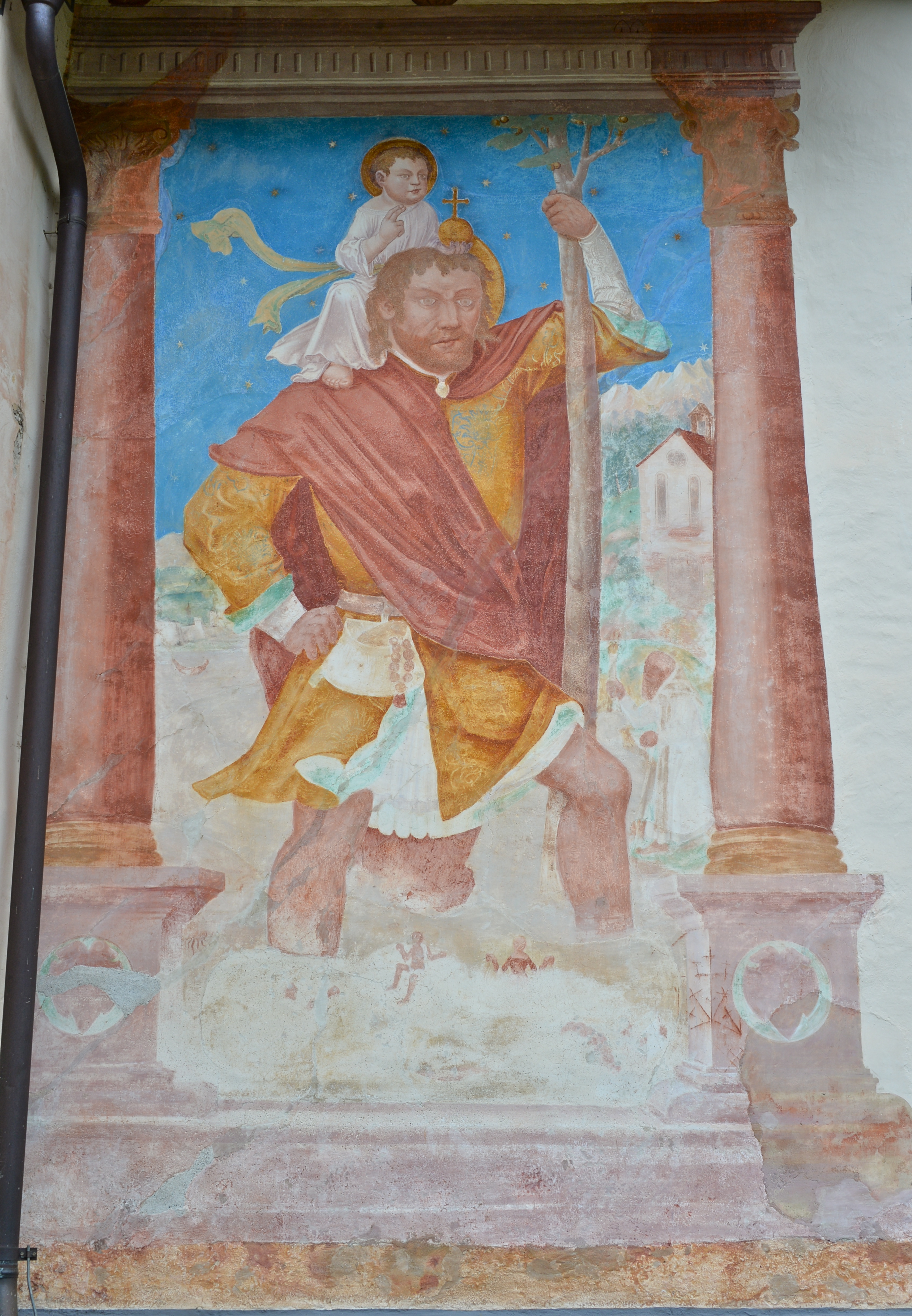 Painting of Saint Christopher by Urban Goertschacher in 1515 at the southern wall of the Roman Catholic parish church Holy John the Baptist in Kaning, municipality Radenthein, district Spittal an der Drau, Kärnten, Österreich, EU